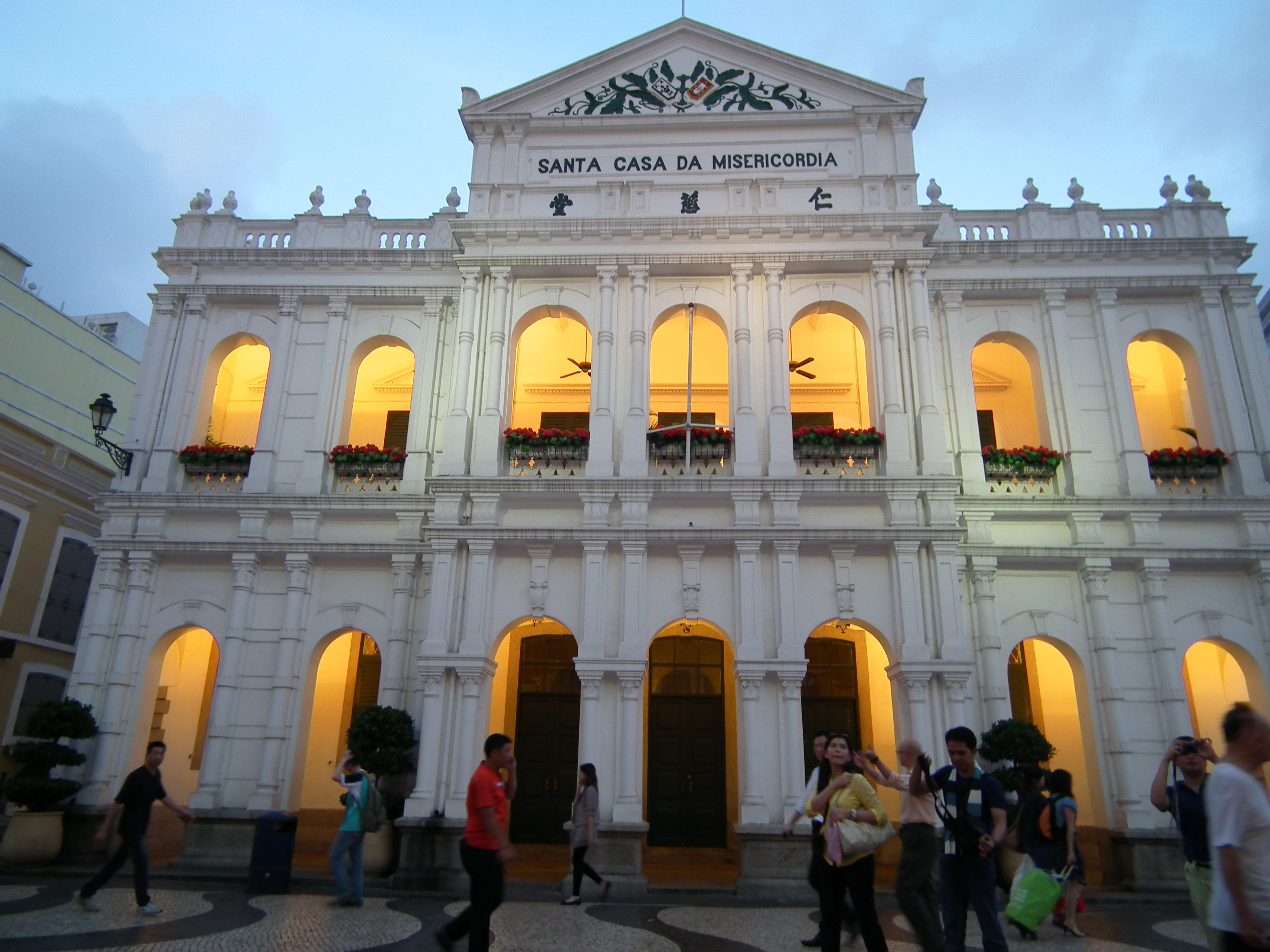 Holy House of Mercy 仁慈堂大楼